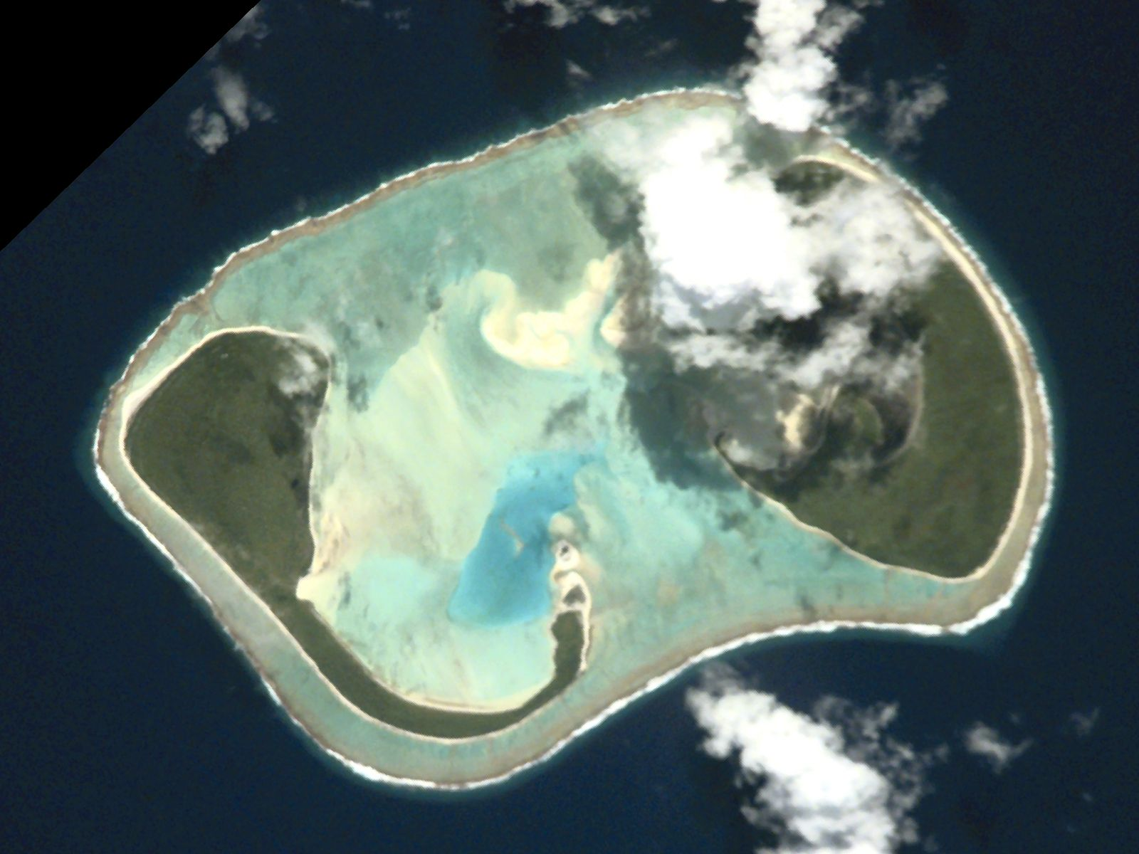 NASA astronaut image of Manuae Islands (Cook Islands) in the Pacific Ocean